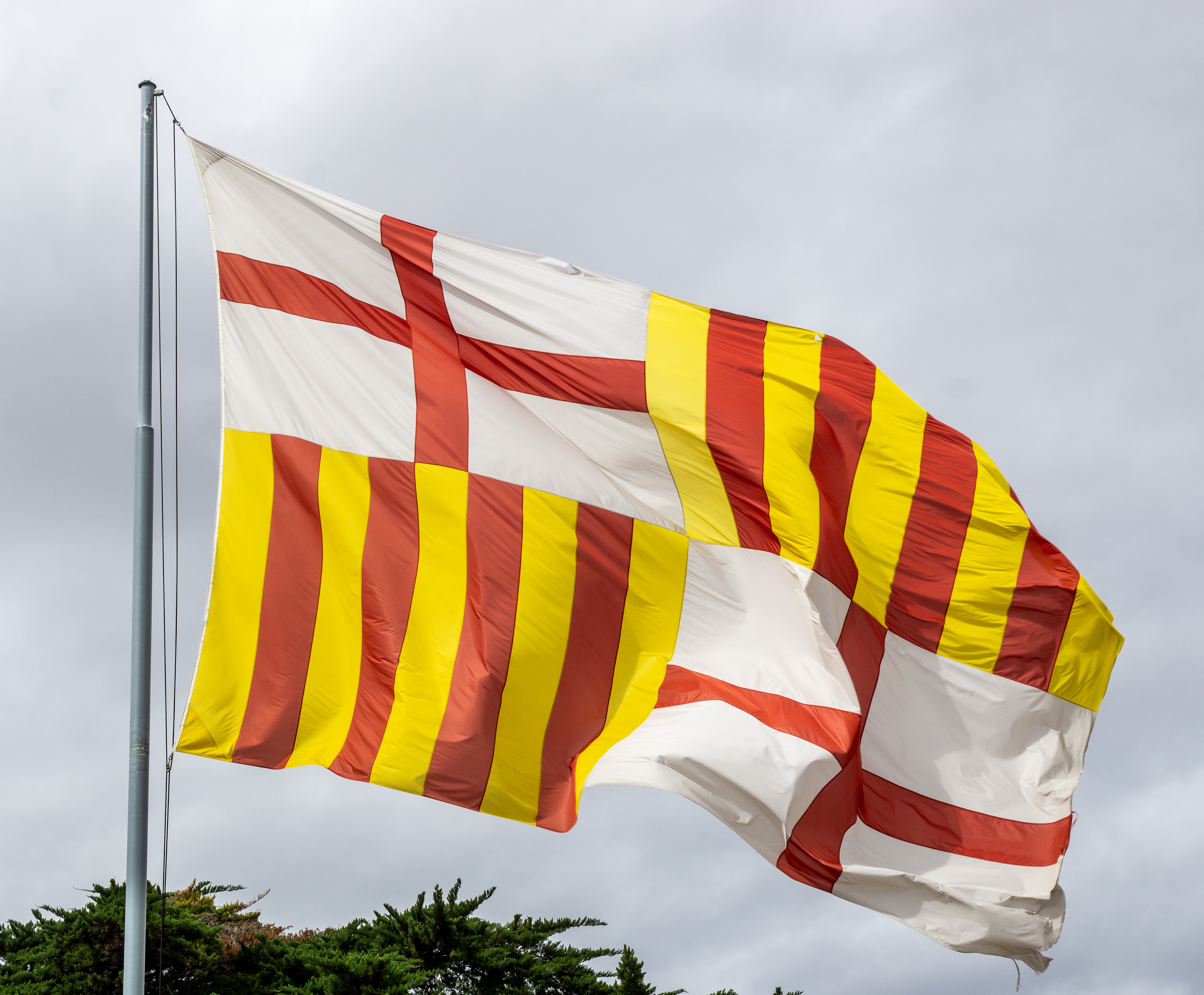 The municipal flag of the city of Barcelona flies over the Barcelona Pavilion.